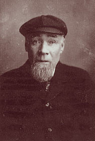 1880-82_Open Champion Bob Ferguson